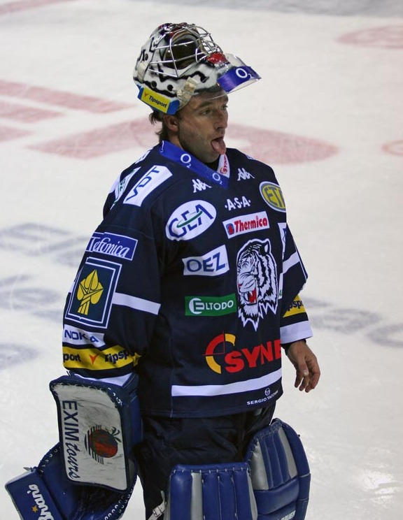 Milan Hnilička, Czech ice hockey goealtender of Bílí Tygři Liberec in game Bílí Tygři Liberec vs. HC Slavia Praha 5:2 (0:1,1:1,4:0)